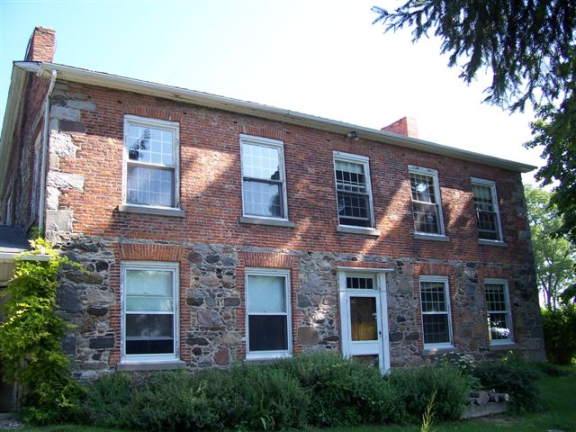 picture of house described in Wikipedia "John Moore House" , Sparta, Ontario.